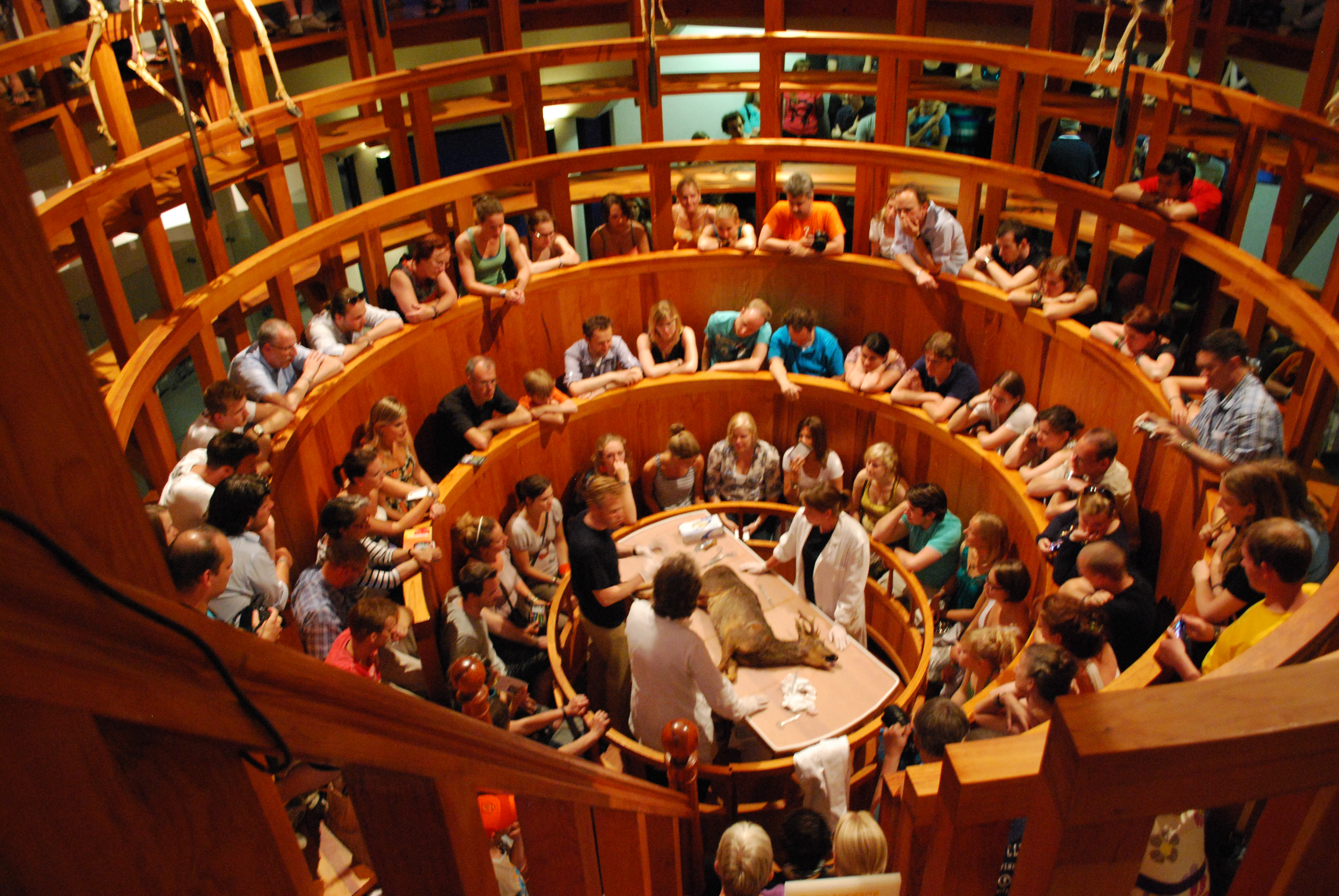 Anatomical theatre in the Museum Boerhaave during the Night of Museums Leiden 2010